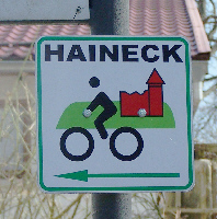 The Haineck-Hiking sign.